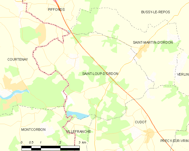 Map of French municipality Saint-Loup-d'Ordon